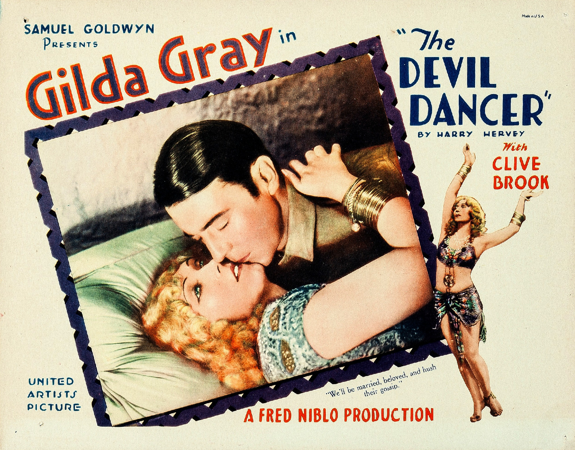 Lobby card for the American romantic drama film The Devil Dancer (1927). There are no copyright marks on the card. At top right is Made in USA.